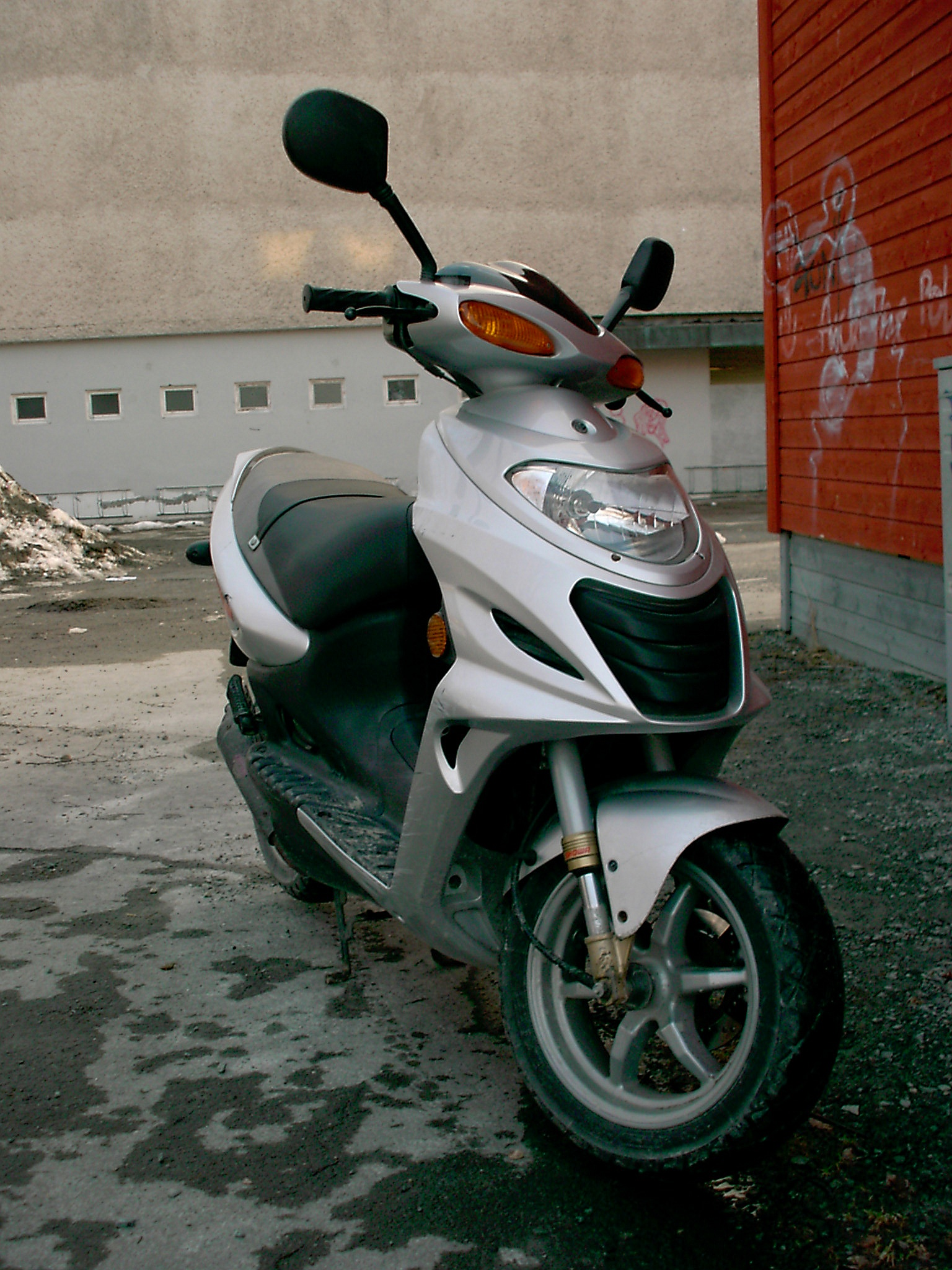 A Norway-spec 2001-model Suzuki Katana AY50. The exhaust, which is just visible on the left side, is non-original. Picture taken and released into the public domain by User:Kallemax.